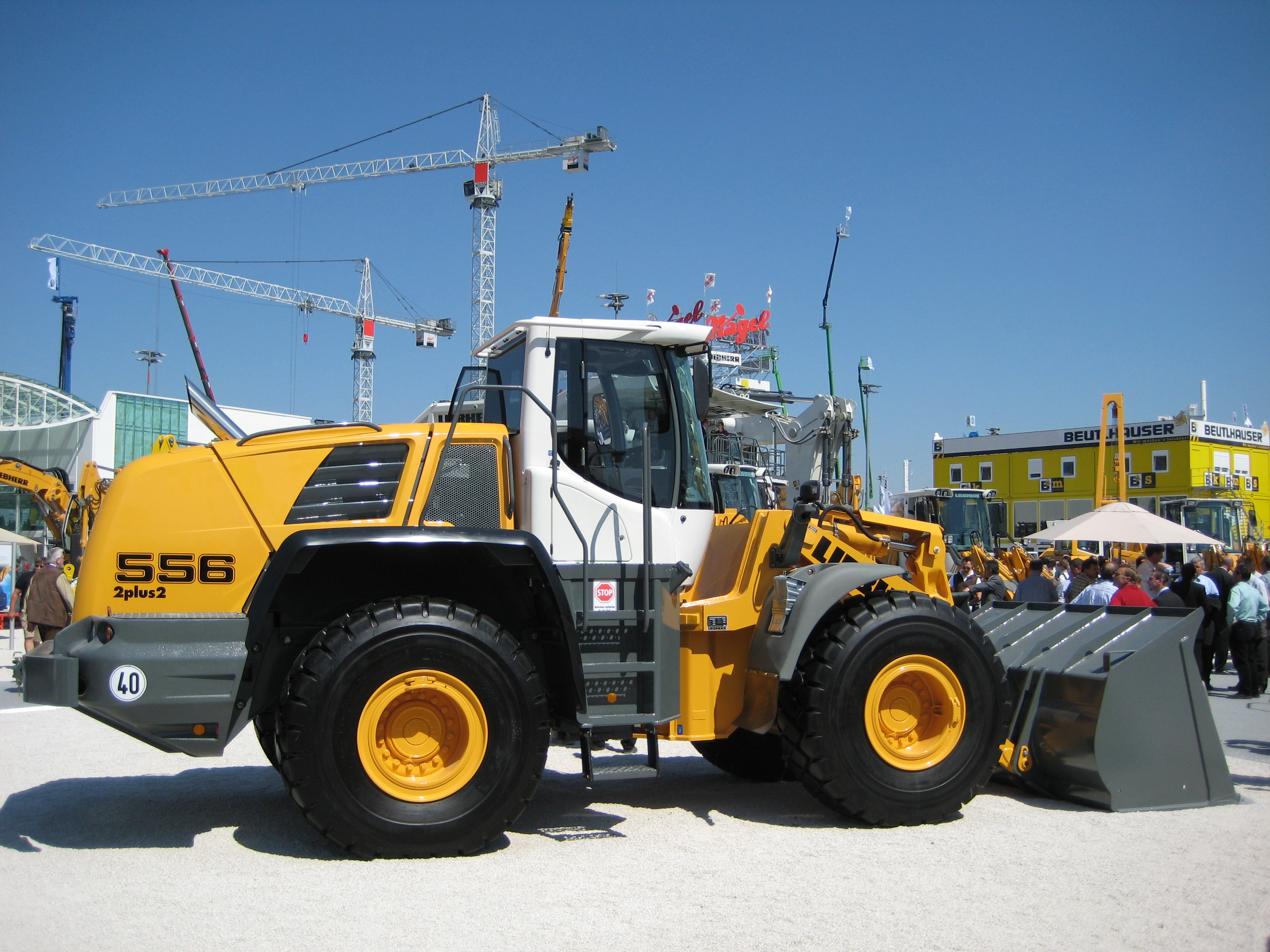 BAUMA 2007, Loader, Liebherr